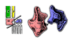 Reversed crurotarsal ankle found in some archosaurs (Euparkeria, ornithosuchidae).